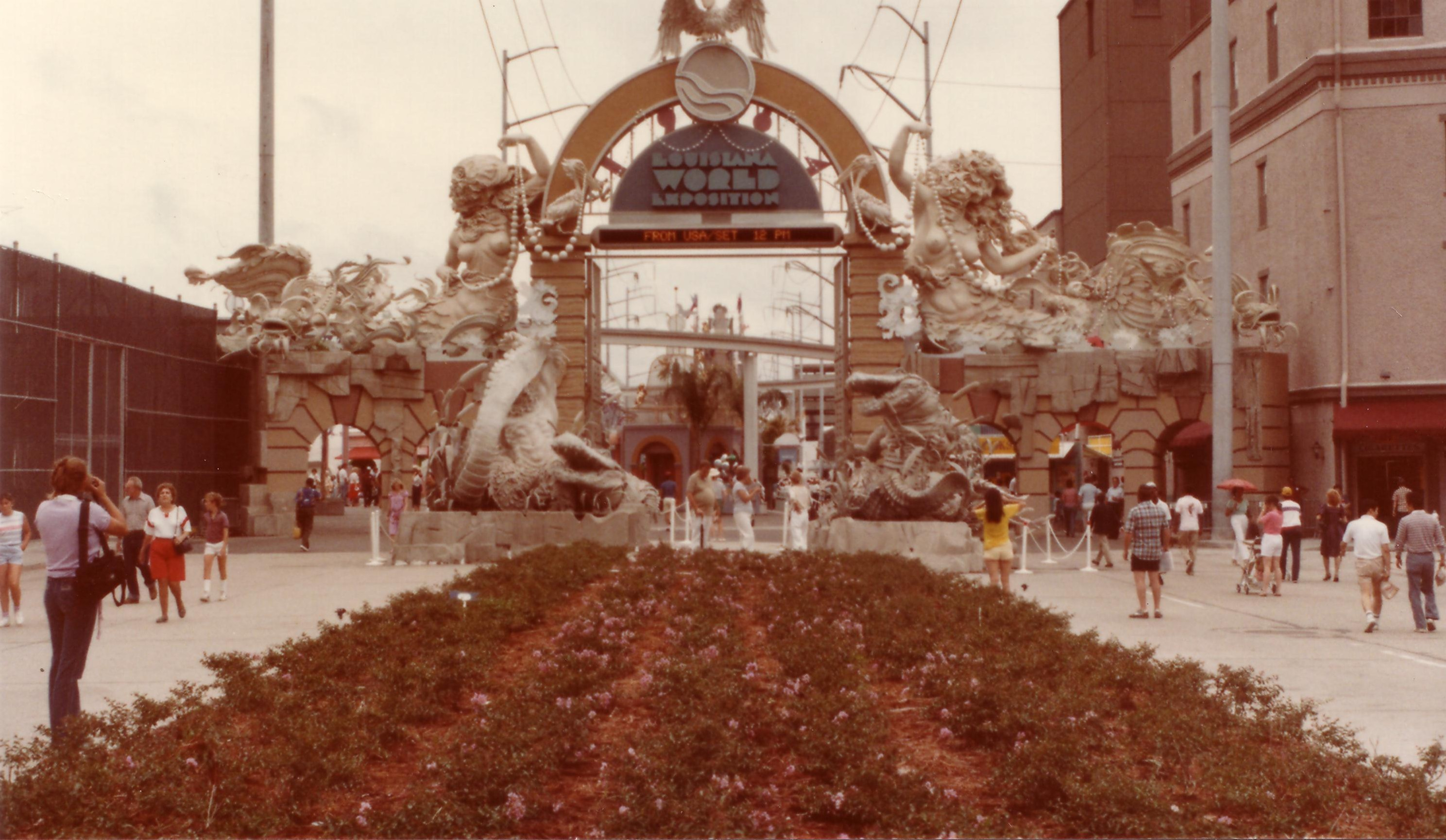 Main downriver entrance to the "Louisiana World Exposition", the 1984 World's Fair in New Orleans.